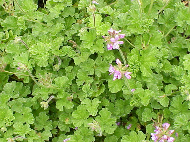 Species: Pelargonium capitatum Family: Geraniaceae Image No. 2